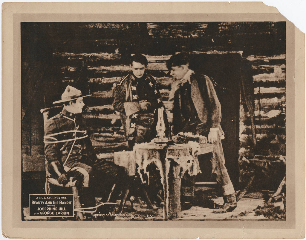 Lobby card for the film Beauty and the Bandit (1925) starring Josephine Hill and George Larkin, here shown playing a member of the (Canadian) Royal Mounted Police. Approximately 28 x 35.5 cm. Part of the Western silent films lobby card collection, 1912-1930. Cite as Yale Collection of Western Americana, Beinecke Rare Book & Manuscript Library, Yale University. Bibliographic Record Number 2019838. View our Record Permalink.